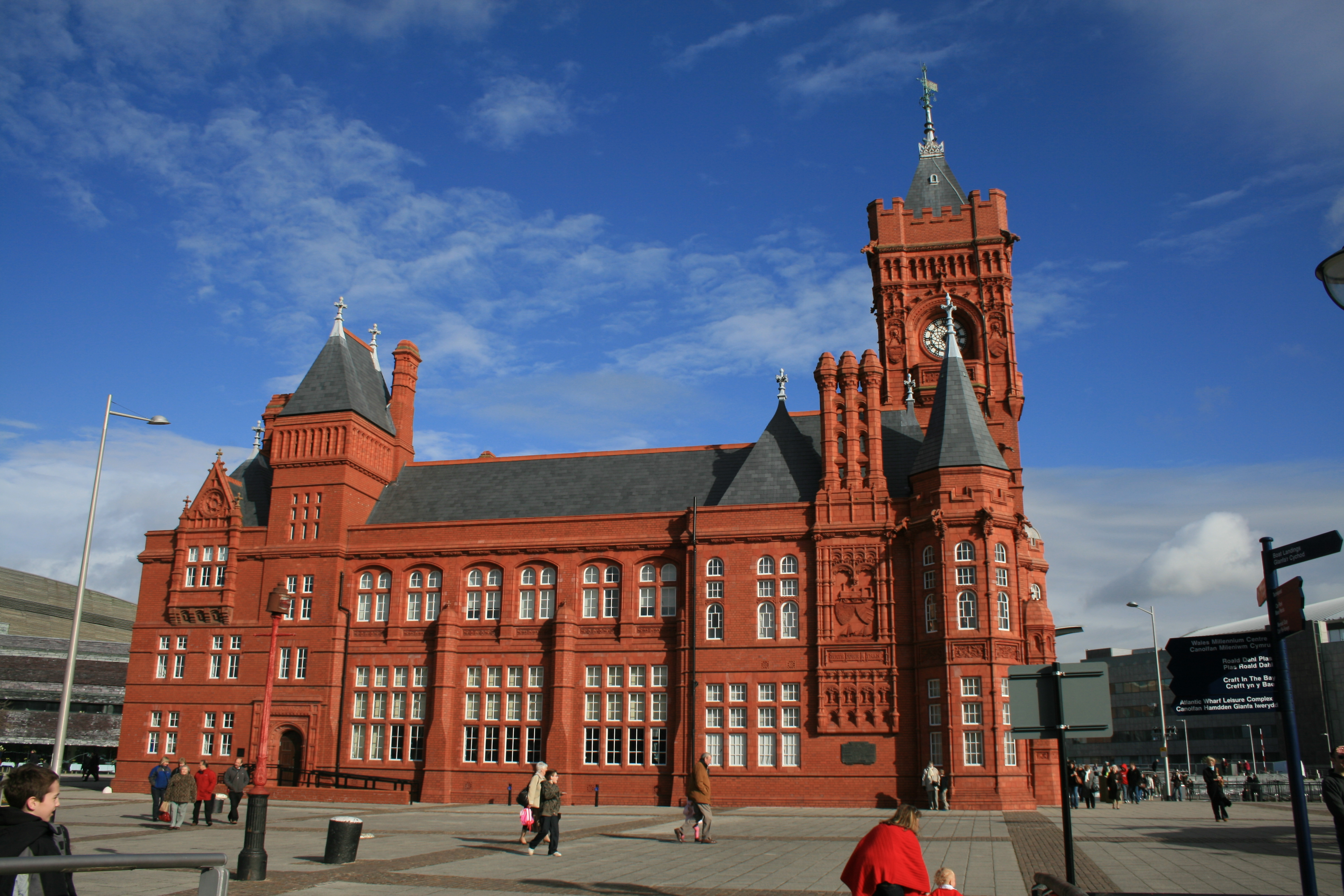 Pierhead Building, Cardiff, Wales.